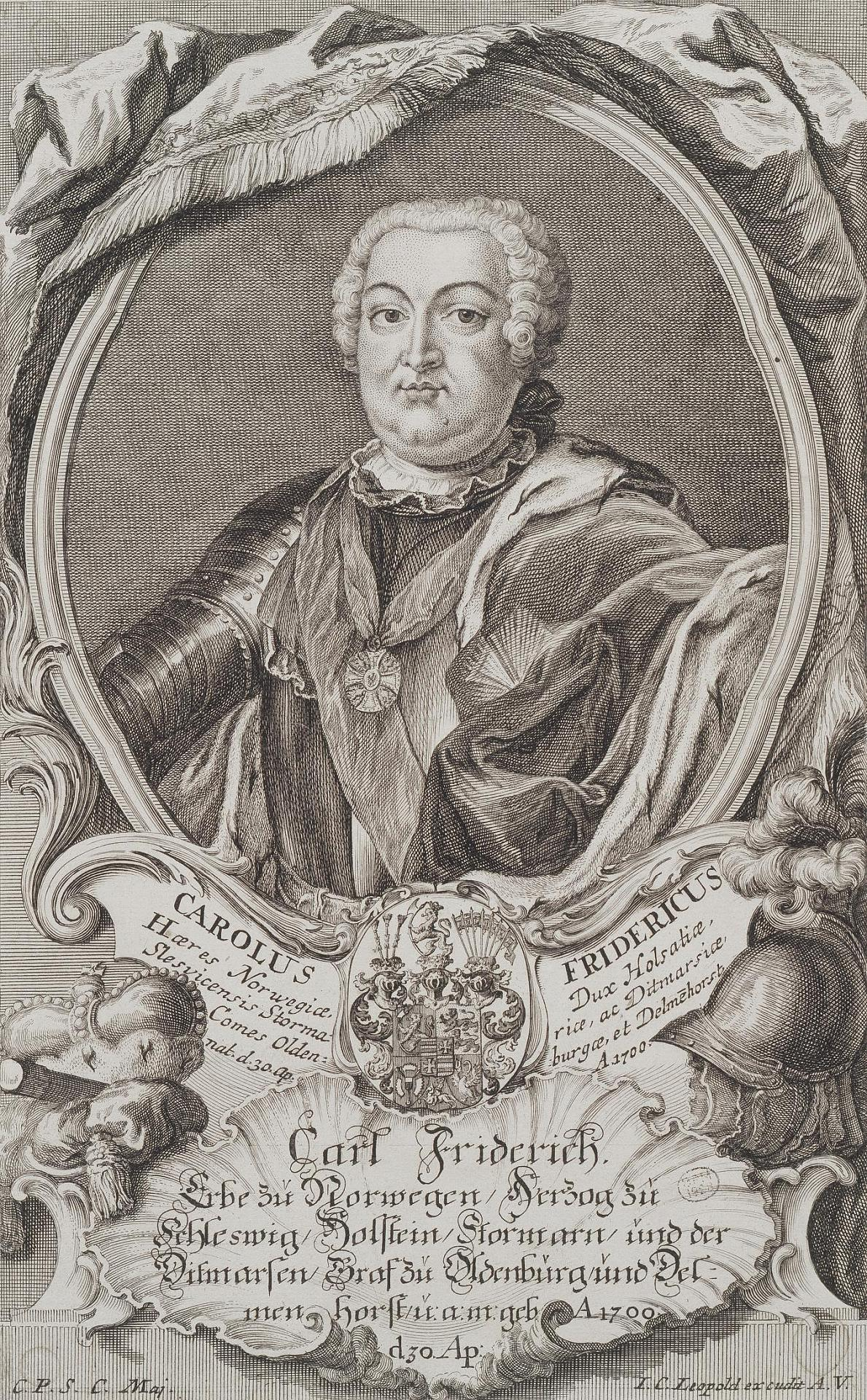 Portrait of Karl Friedrich (Schleswig-Holstein-Gottorf), Engraving in the Hermitage collection, St. Petersburg